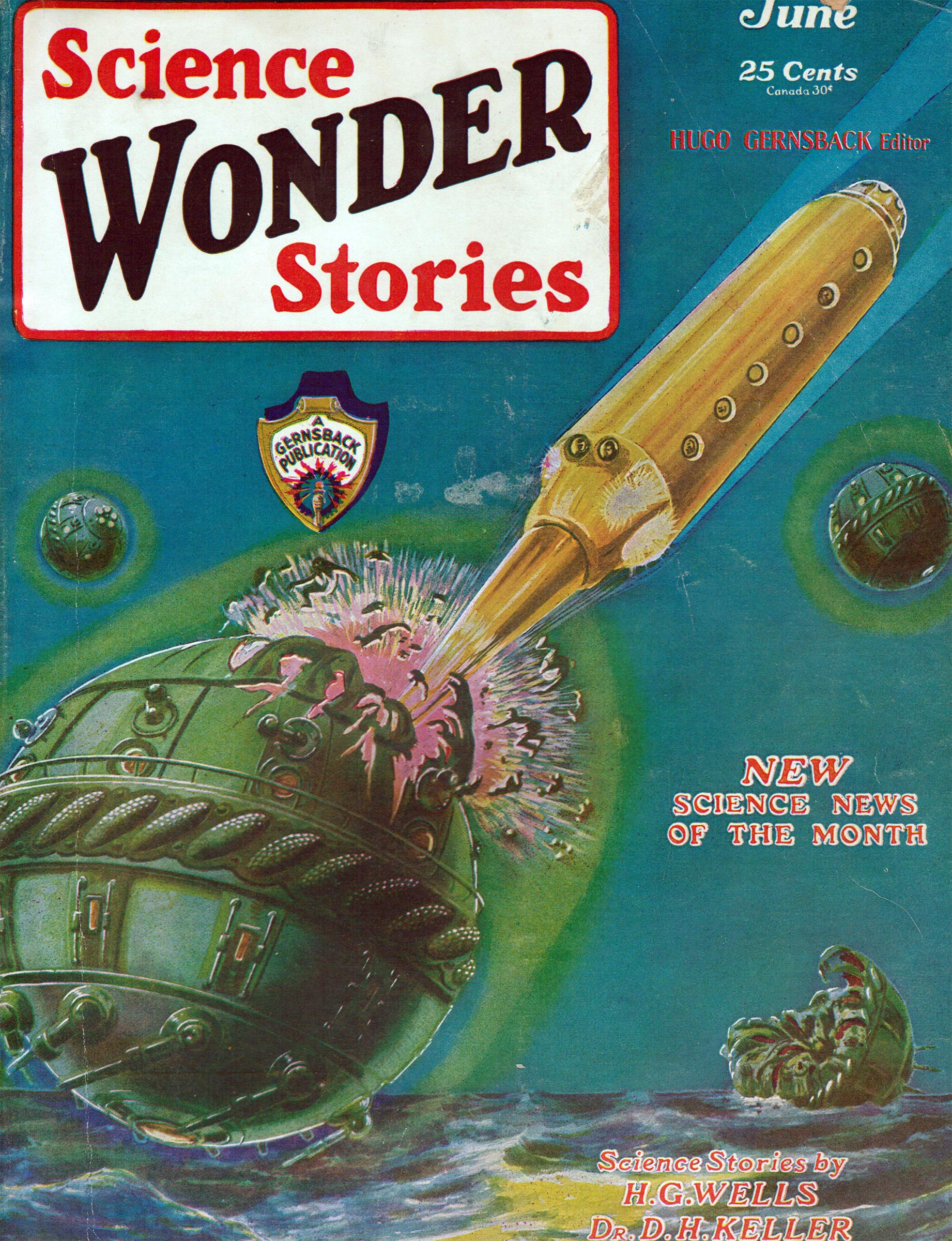 Cover of the June 1929 issue of Science Wonder Stories. Original copyright holder would have been either the artist, Frank R. Paul, or the publisher, Continental Publications.